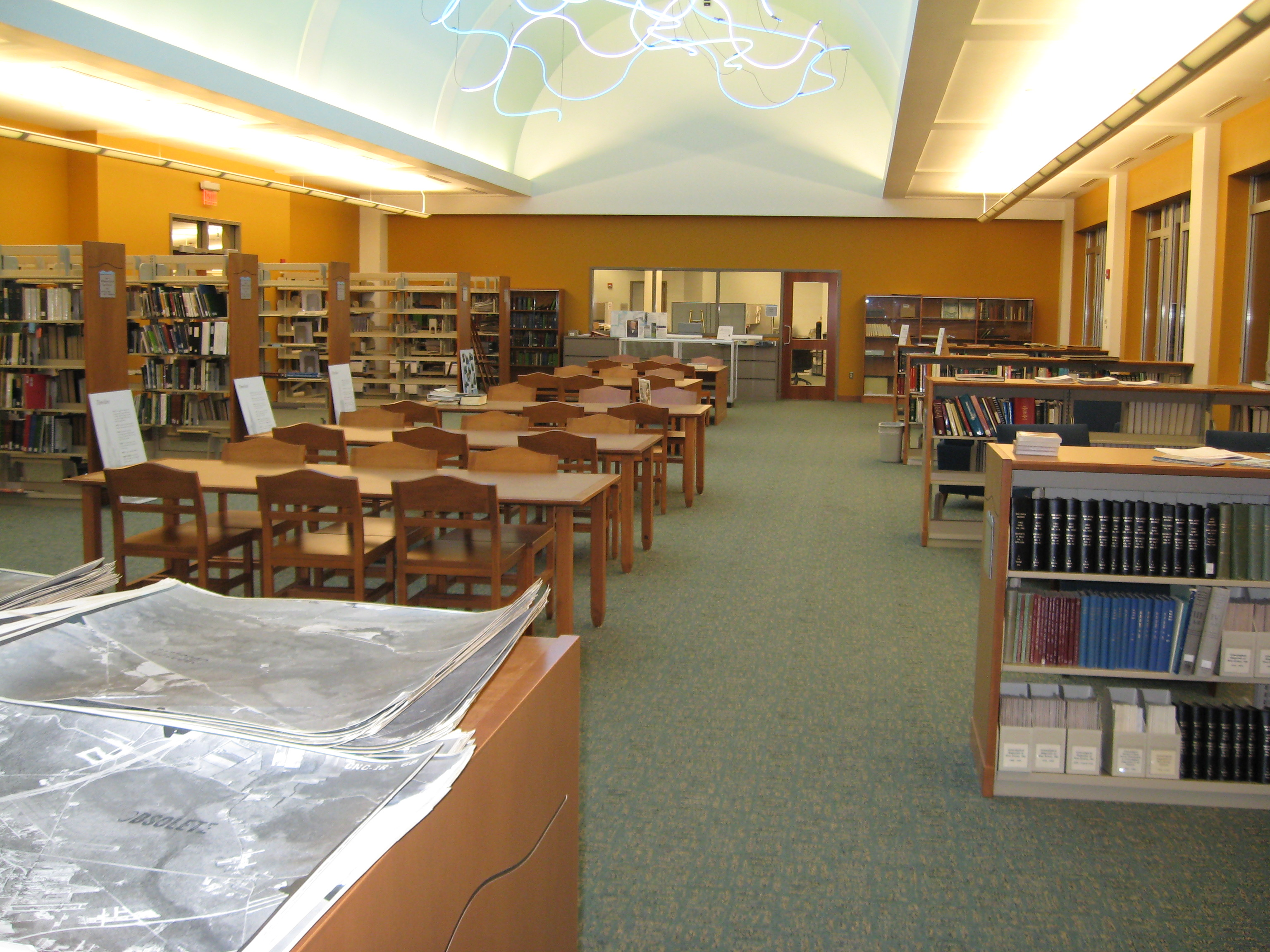 From the Toms River branch of the Ocean County Library, second floor, southern corner. The library has several areas intended for silent reading, this is the largest.